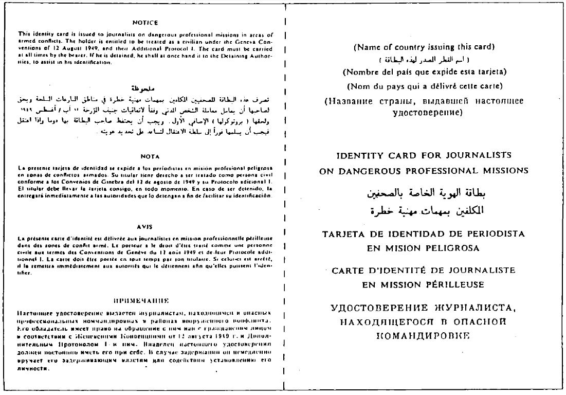 identity card for journalists on dangerous professional missions